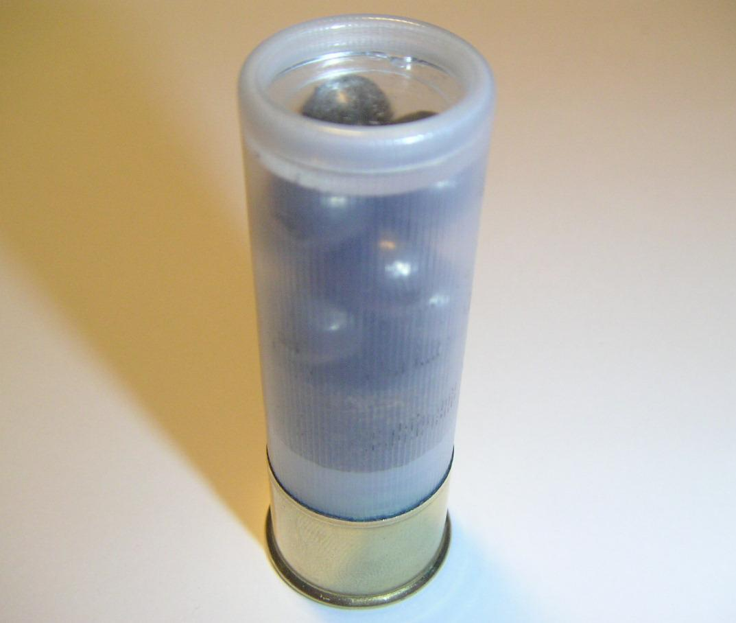 A 9 grains buckshot cartrige, 12 gauge.